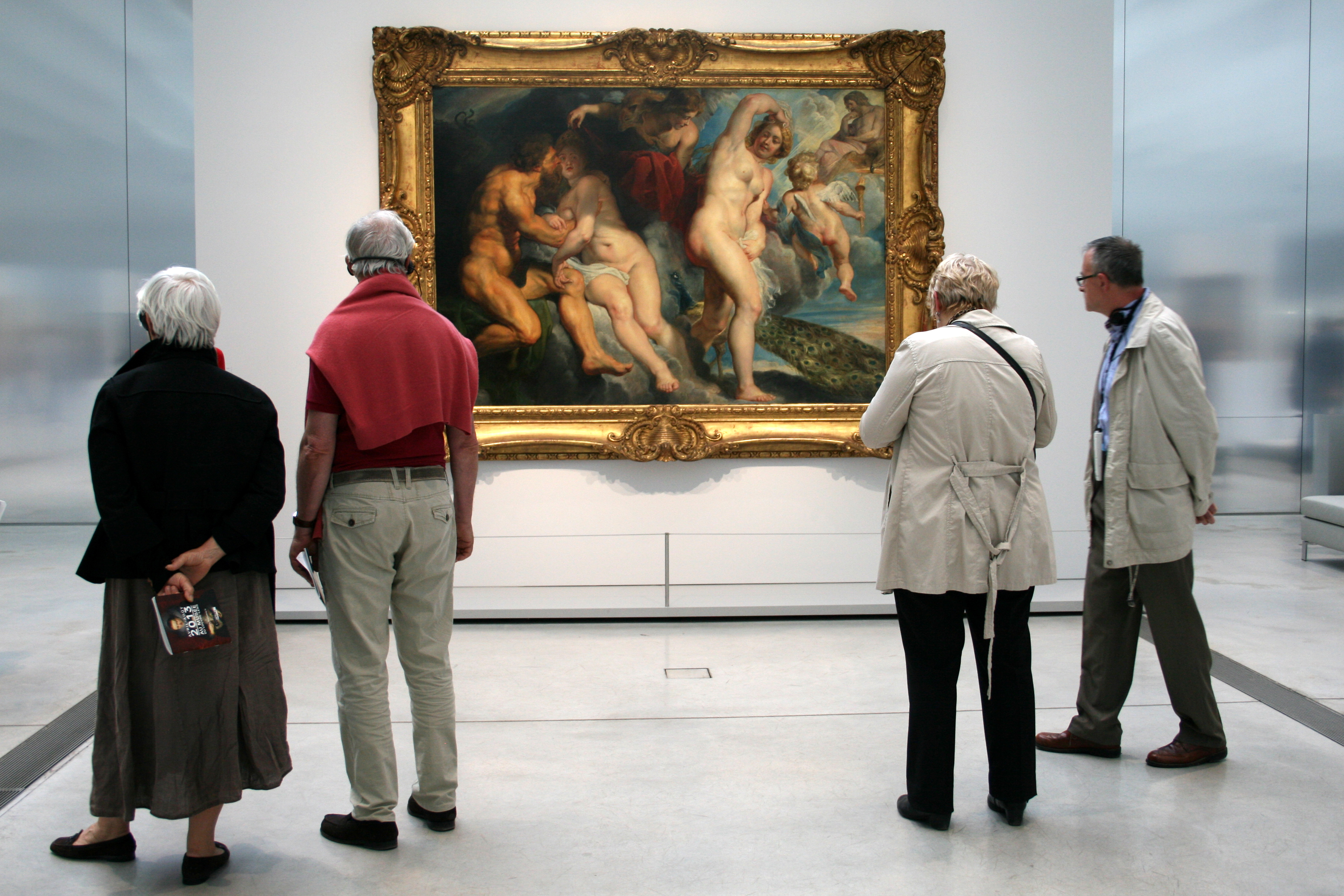 Ixion king of Lapiths deceived by Juno he wanted to seduce, oil on canvas by Peter Paul Rubens (1615) admired in the "Galerie du Temps" of Louvre-Lens museum where it is exposed temporarily.